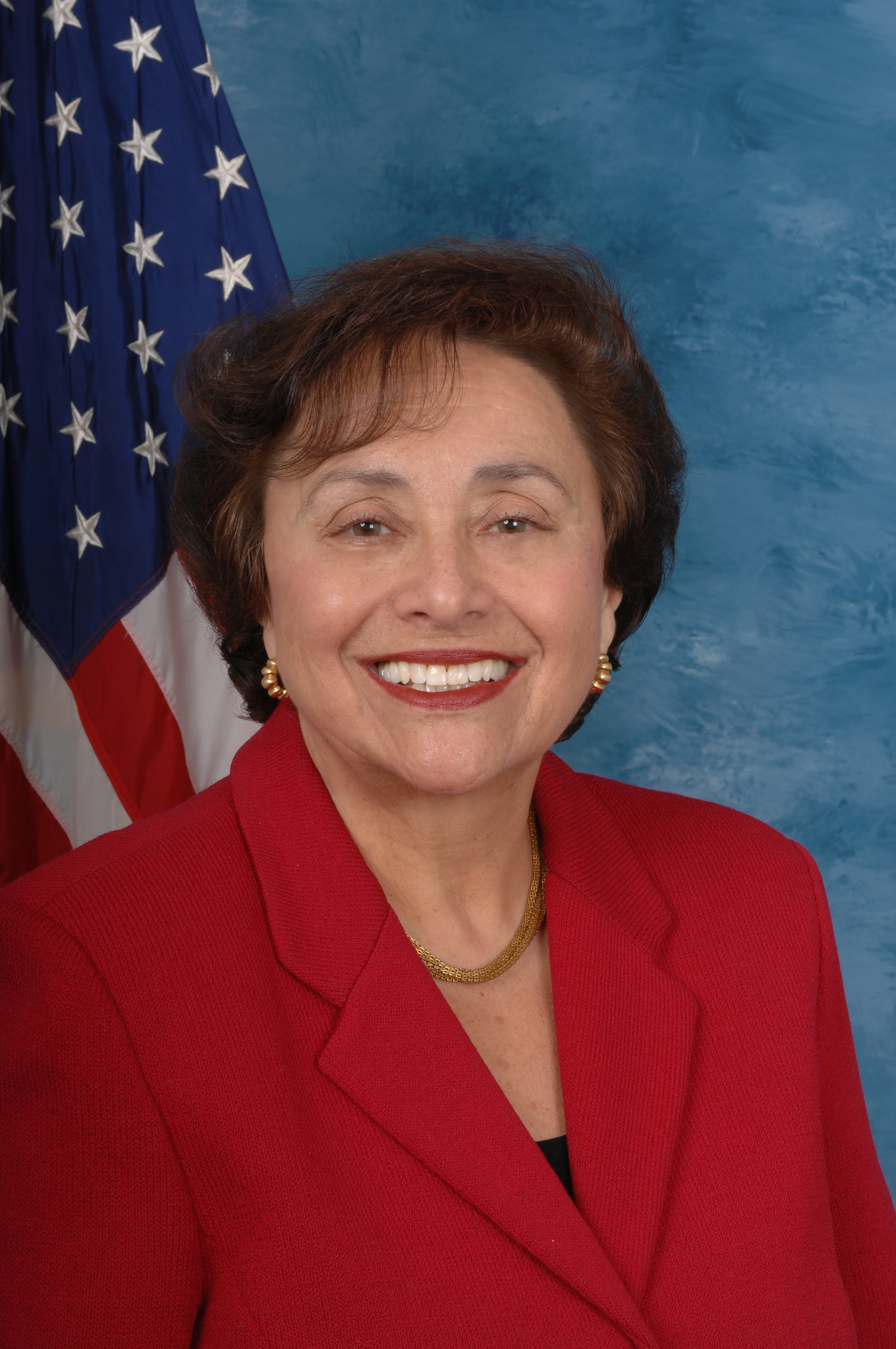 Nita Lowey, member of the United States House of Representatives.